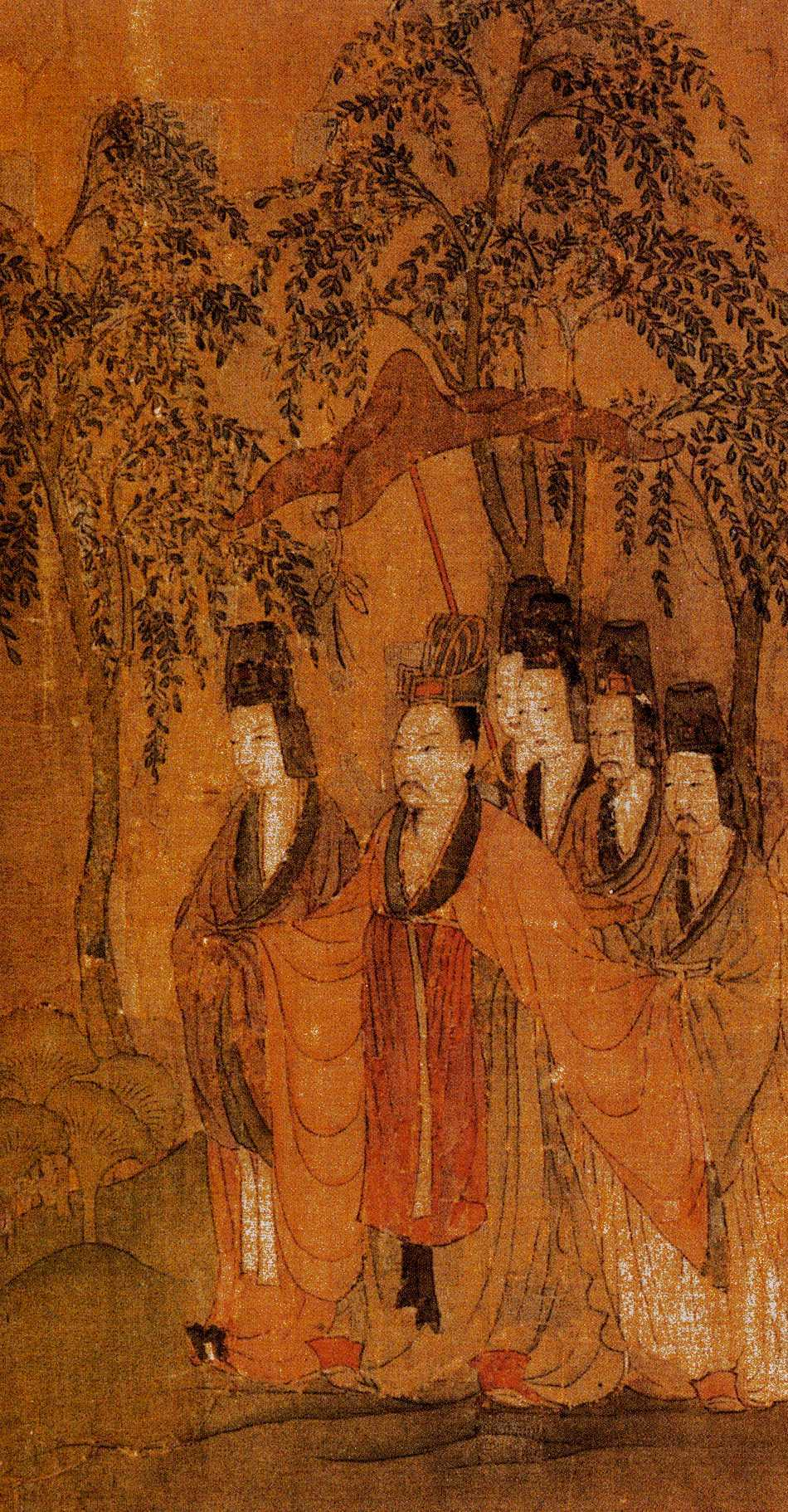 Cao Zhi, a full-length portrait, a part of "Godess of Luo Liver" by Gu Kaizhi, Jin Dynasty, in china.